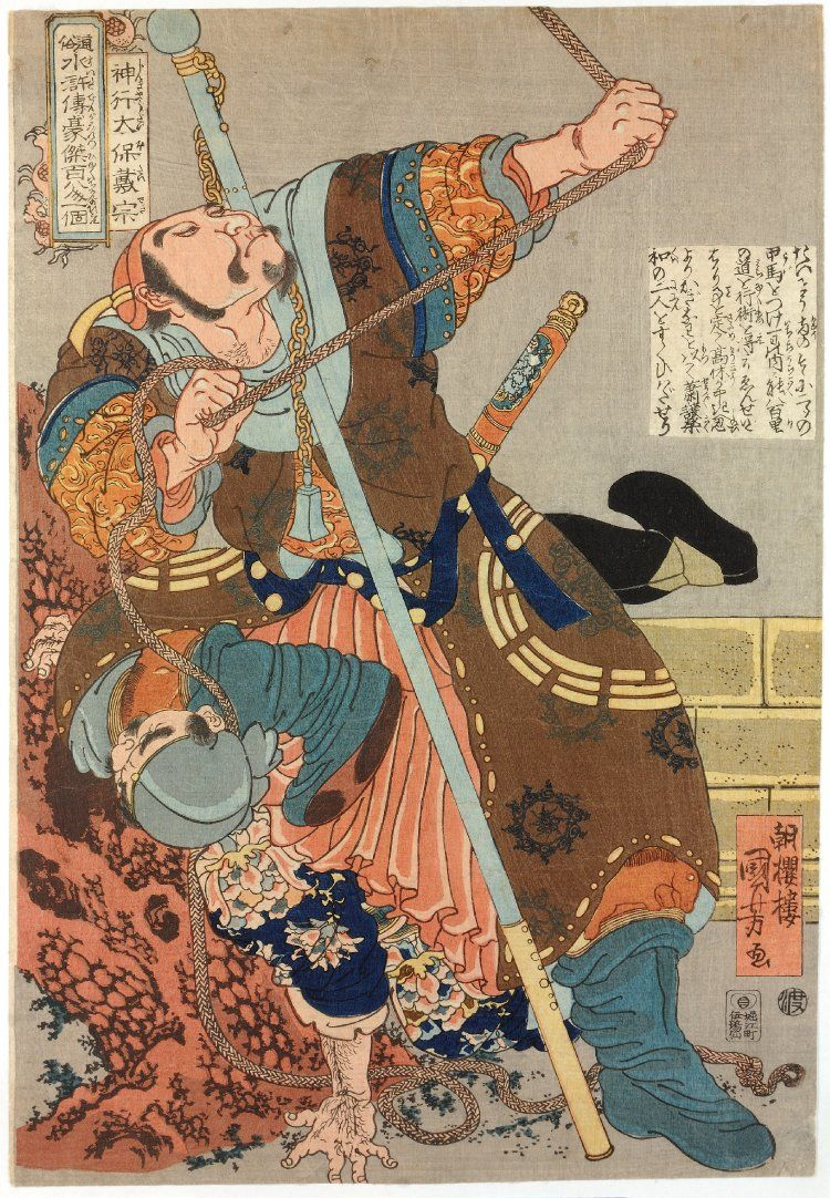 Dai Zong (戴宗) at the base of a castle wall pulling on a rope, a fallen guard behind him.